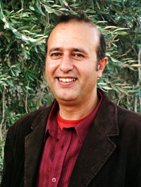 Palestine Fair Trade Association founder Nasser Abufarha poses in front of an olive tree on the grounds of his newly constructed Canaan Fair Trade facility near Jenin.